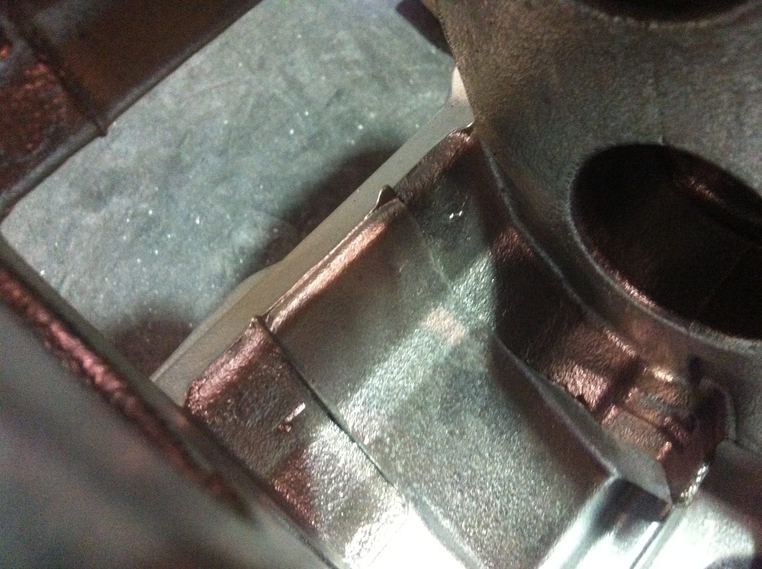 Burr on metal element